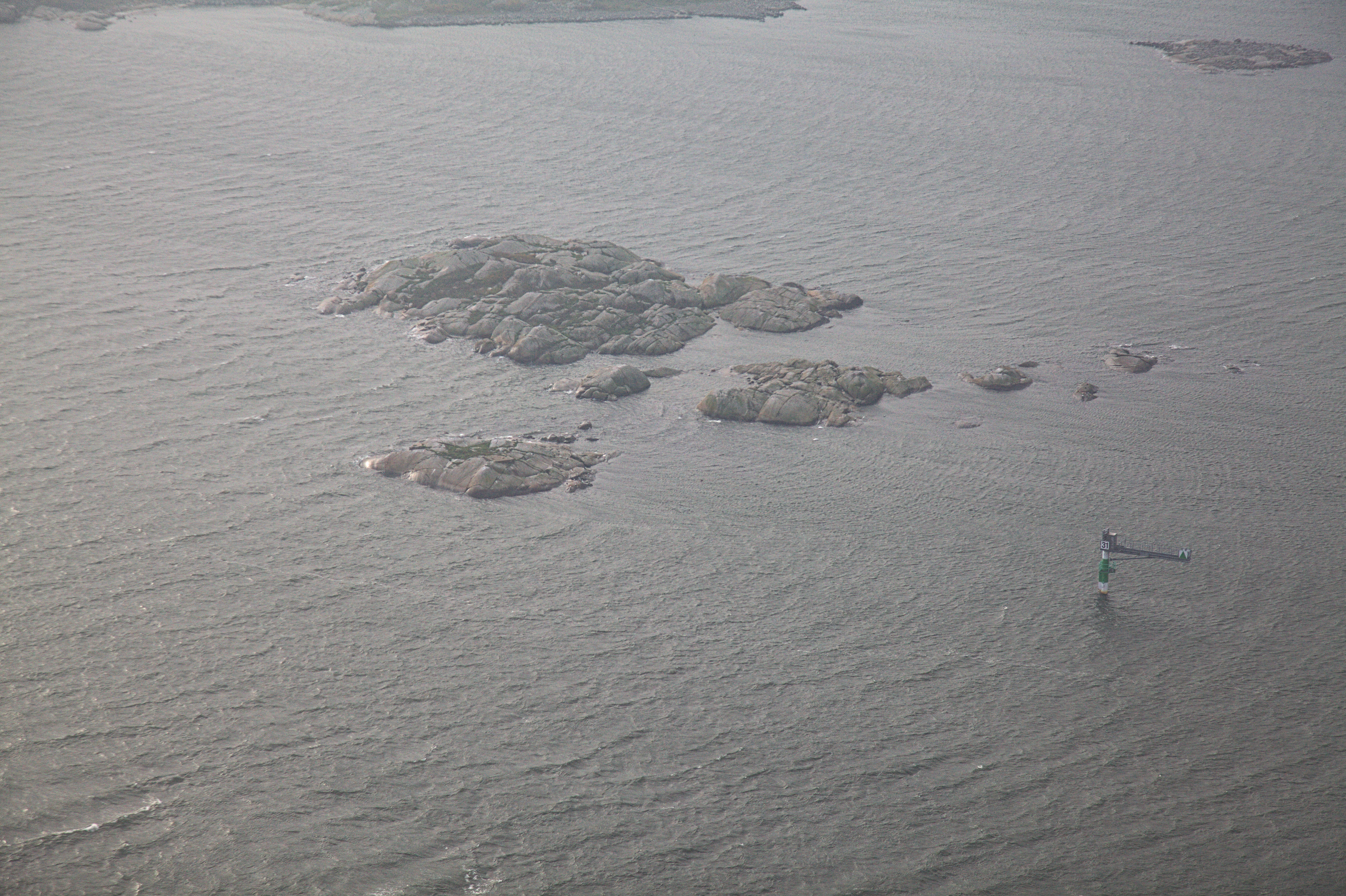 Photo taken on a helicopter over Gothenburg. On photo is the small islets Hundeskär just outside Göteborgs hamn (Gothenburg harbour) seen from northeast.